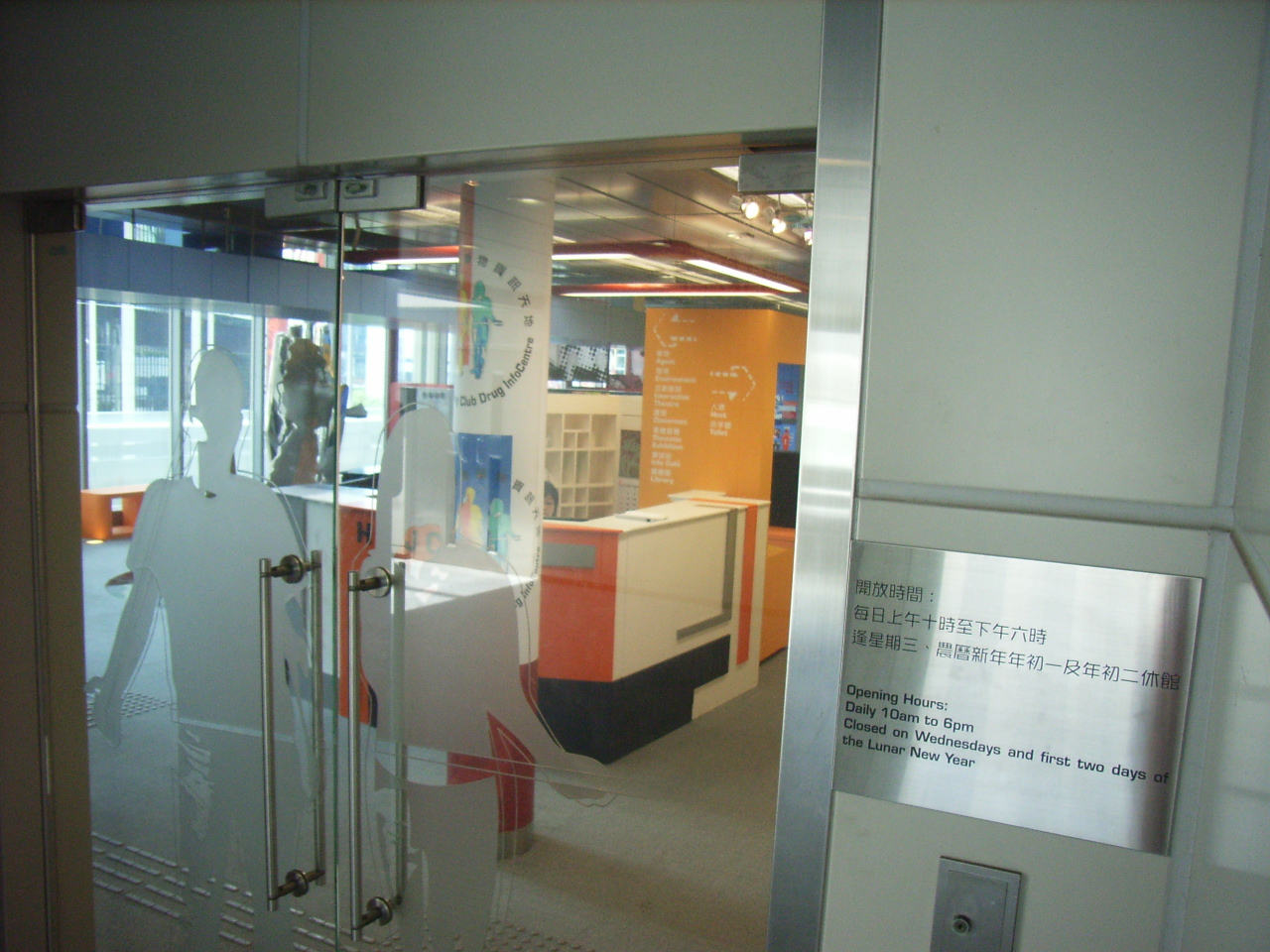 Hong Kong Jacket Club Drug InfoCentre, Queensway Bay picture by QWB656